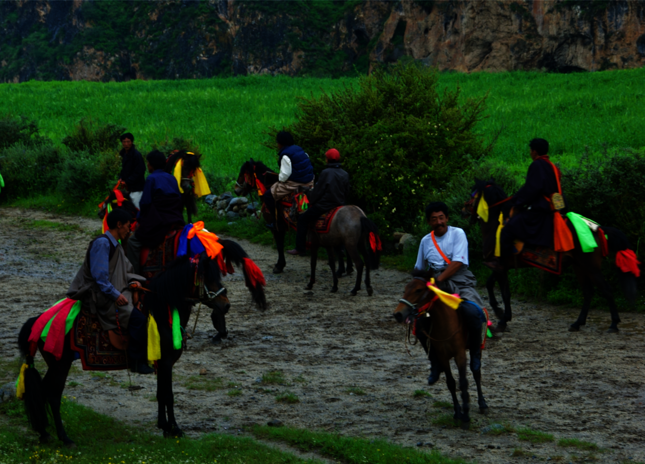 Tibetan Horse Racers during a horse race near Manigango (Garze County), Sichuan, 2009